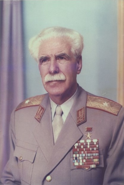 Bulgarian General Delcho Delchev